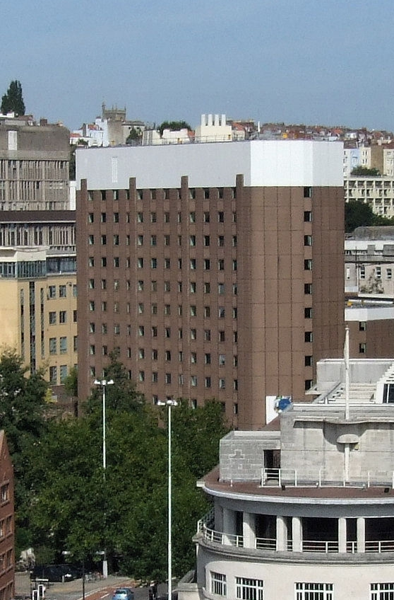 Cropped from File:Colston Avenue, Bristol.jpg